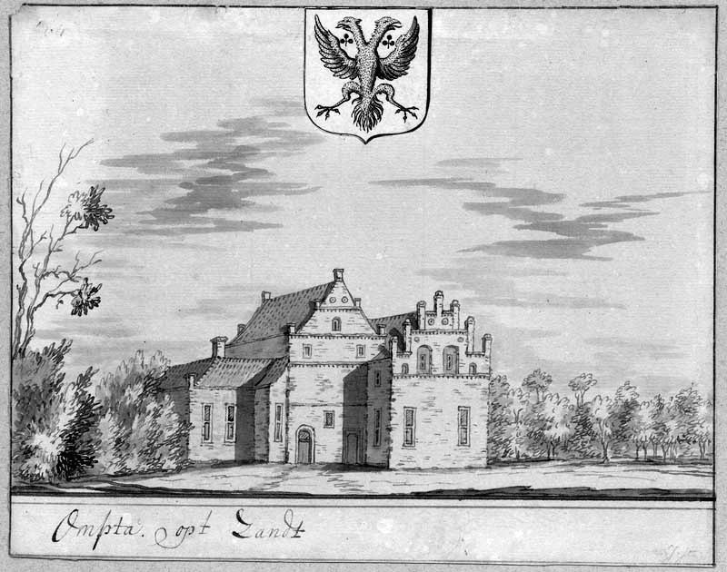 Ompta op ‘t Zandt in 't Zandt, Loppersum, ancestral seat of the Ompteda family